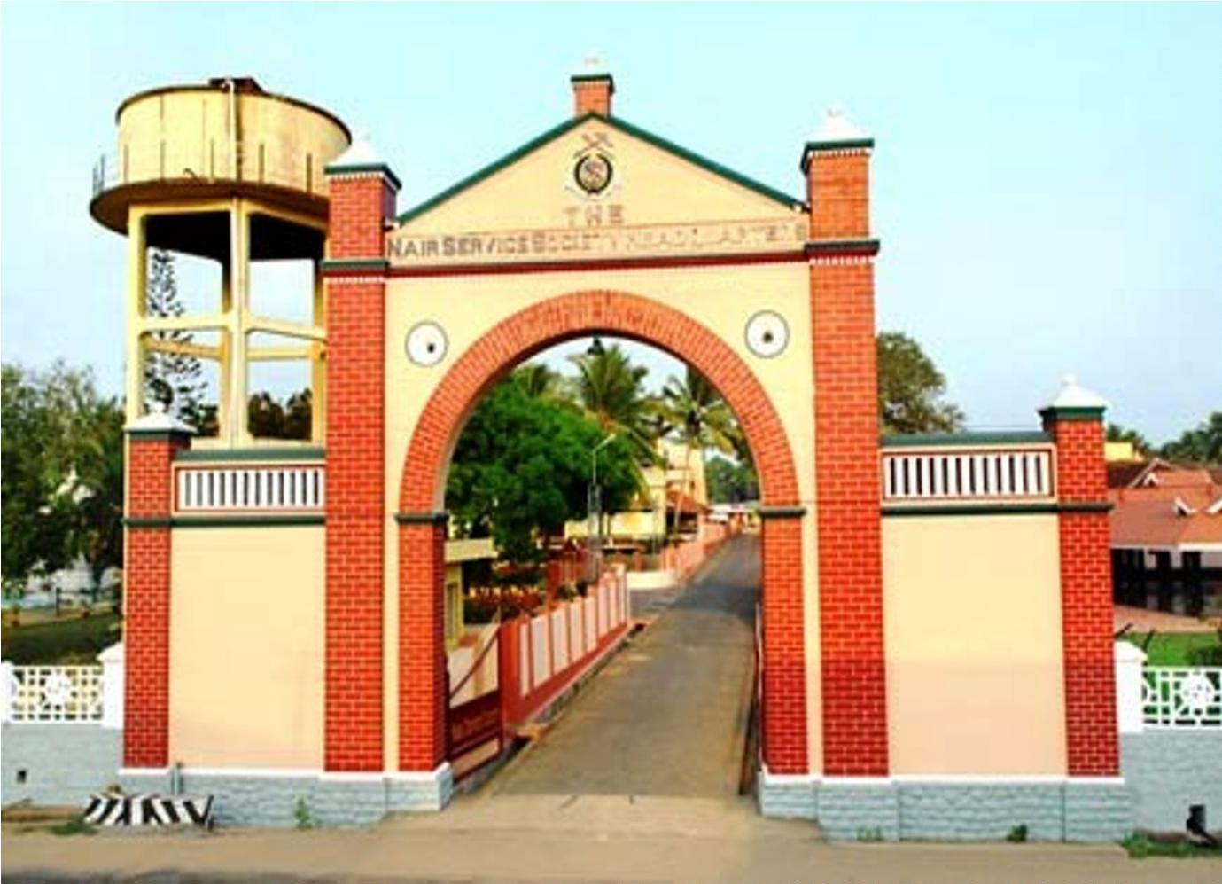 NSS Head Quarters Main Gate, Changanassery